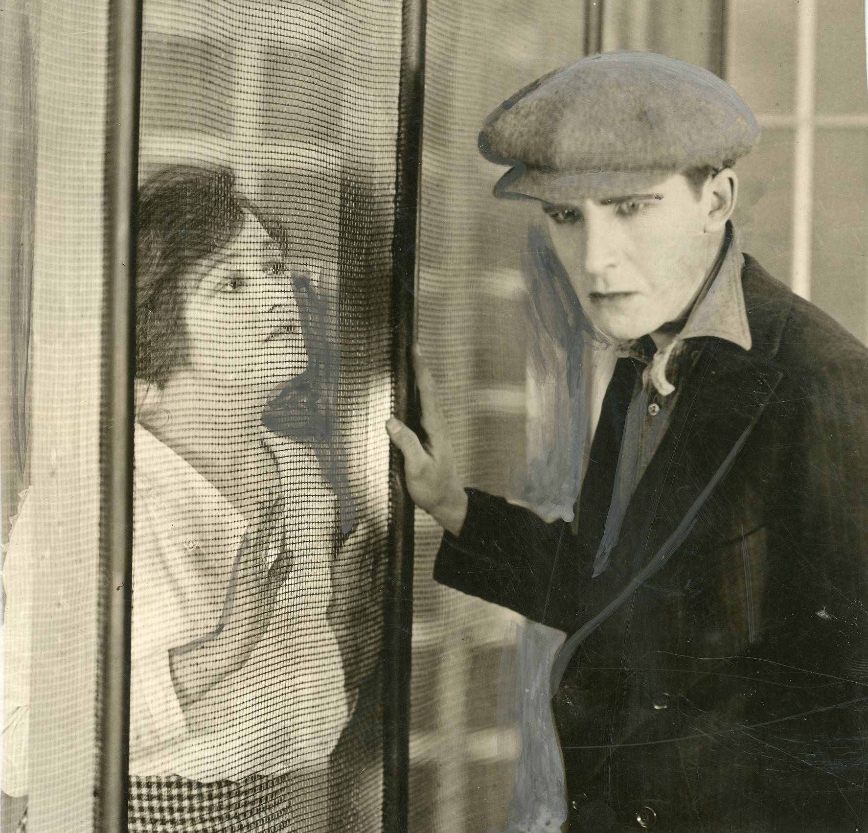 A scene from the American film Pitfalls of a Big City (1919), which played at the Colonial Theater, Seattle. Includes Gladys Brockwell. Date stamped May 5, 1919. Subjects: motion pictures, actresses